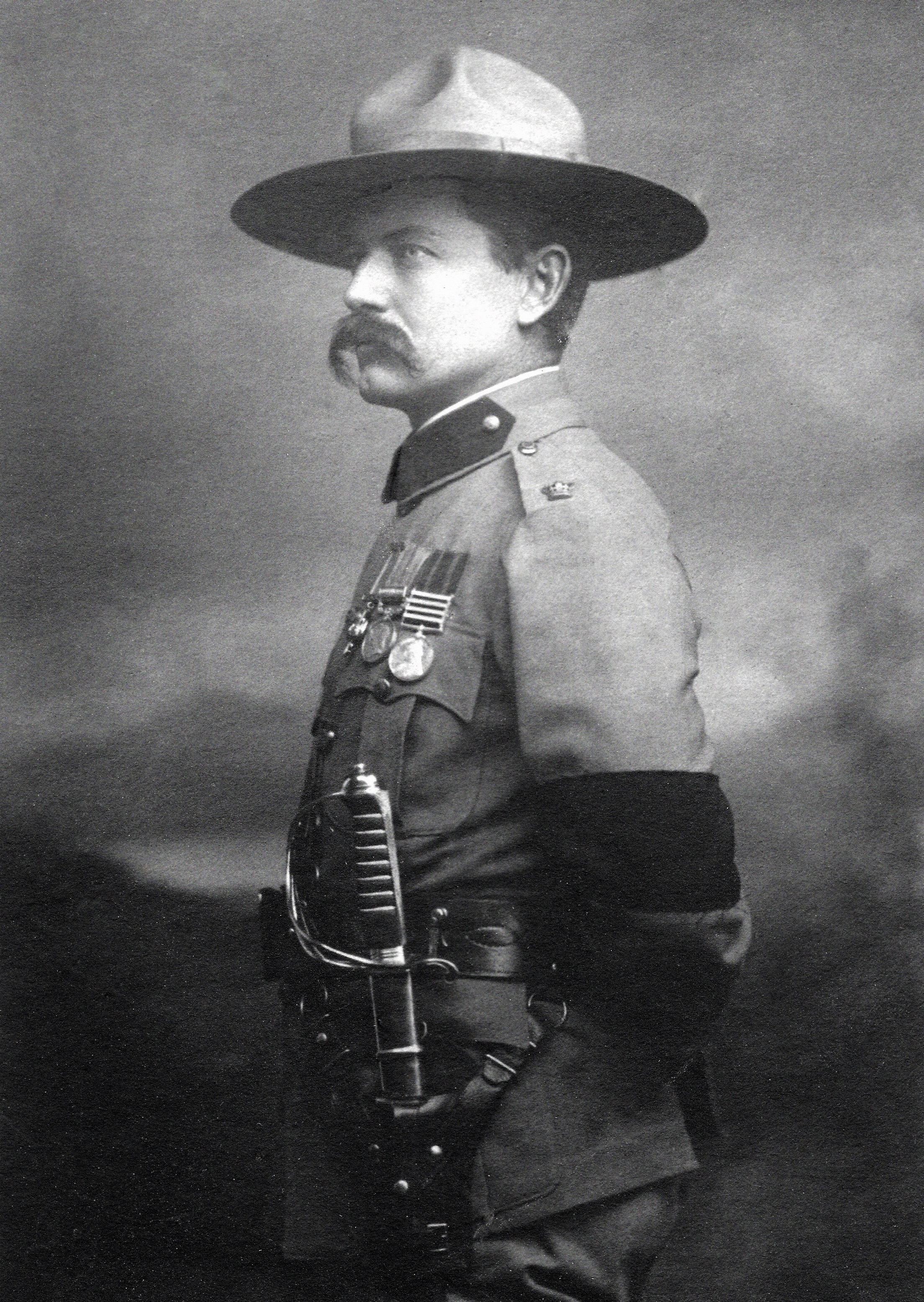 Major Frederick Russell Burnham photograph taken in London on the day he received from King Edward VII the cross of the Distinguished Service Order, second highest decoration in the British Army, for his heroism during the "victorious" March to Pretoria (2-5 June 1900), during the Second Boer War. Burnham's two other medals shown in photo: the Queen's South Africa Medal with four bars (Driefontein (10 Mar 1900); Johannesburg (31 May 1900); Paardeberg (17-26 Feb 1900); Cape Colony (11 Oct 1899 - 31 May 1902); and the British South Africa Company Medal, earned in the First Matabele War. The black armband was worn in mourning for the recent death of Queen Victoria. [1][2]